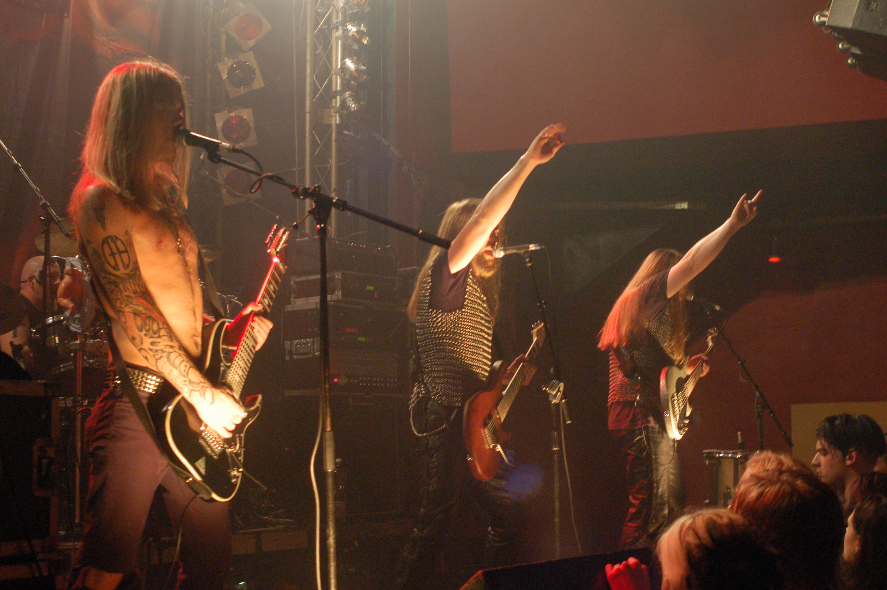 Viking Metal group Týr of the Faroe Islands in Hamburg